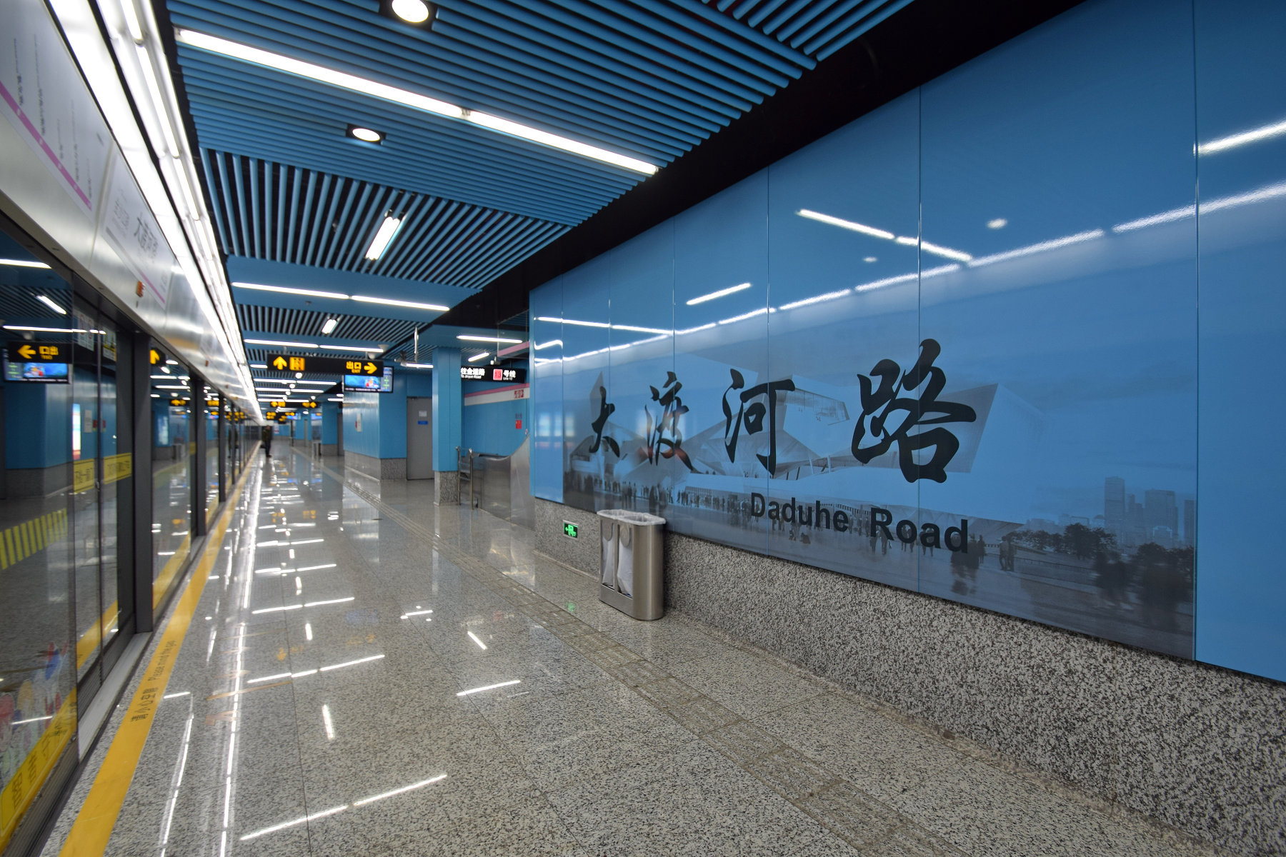 Line 13 Platform of Daduhe Road Station, Shanghai Metro